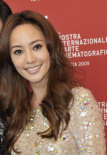 Left: Océane Zhu (Xuan Zhu), Miss China France 2007. Right: Terri Kwan